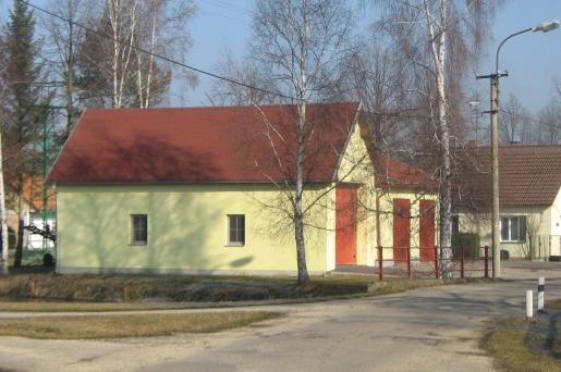 Branná (Třeboň)- Fire station Česky: Branná (Třeboň)- Požární stanice